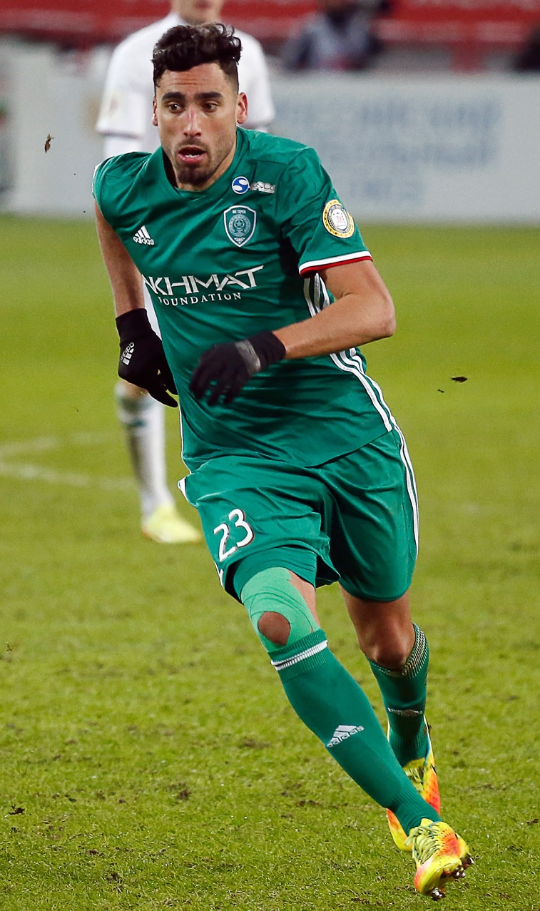 Facundo Píriz with FC Terek Grozny in a game against FC Lokomotiv Moscow.